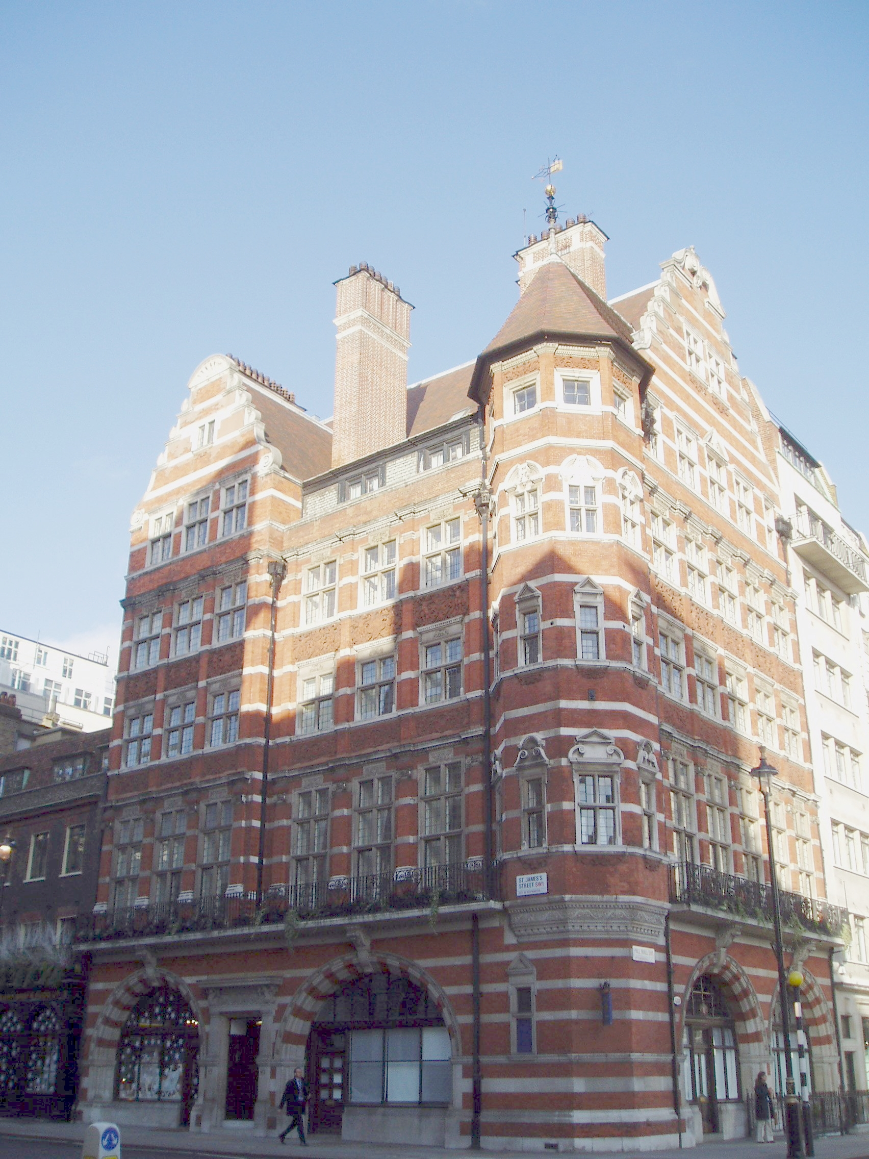 by Richard Norman Shaw, 1882. On the corner with Pall Mall, London., England.